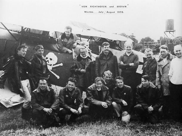 Pilots flying in Roger Corman's film Richthofen & Brown, August, 1970 Weston Aerodrome, Ireland. Irish Air Corp pilots with owner/director Lynn Garrison front row, second from right